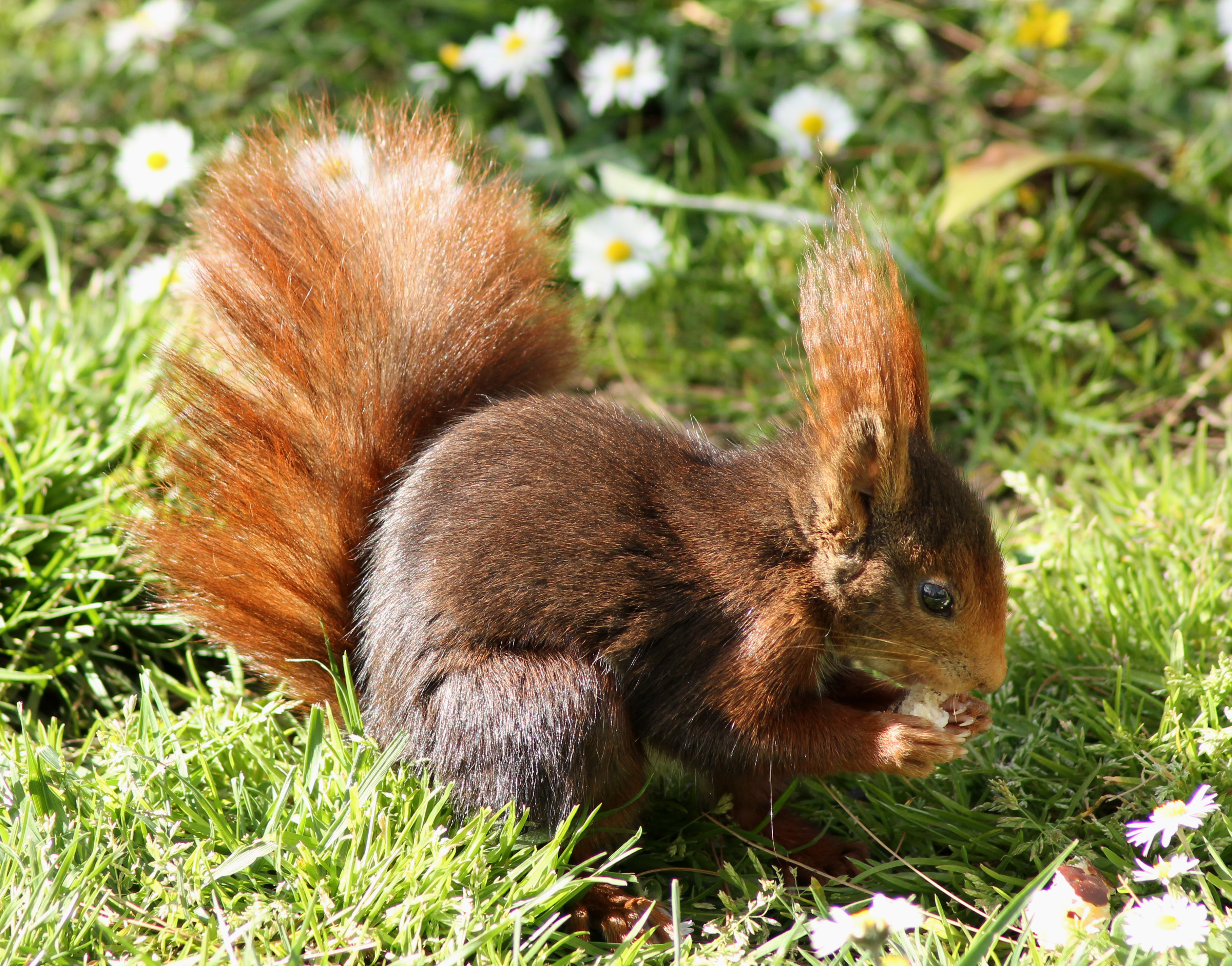 A red squirrel (Sciurus vulgaris) in Retiro Park in Madrid (Spain).